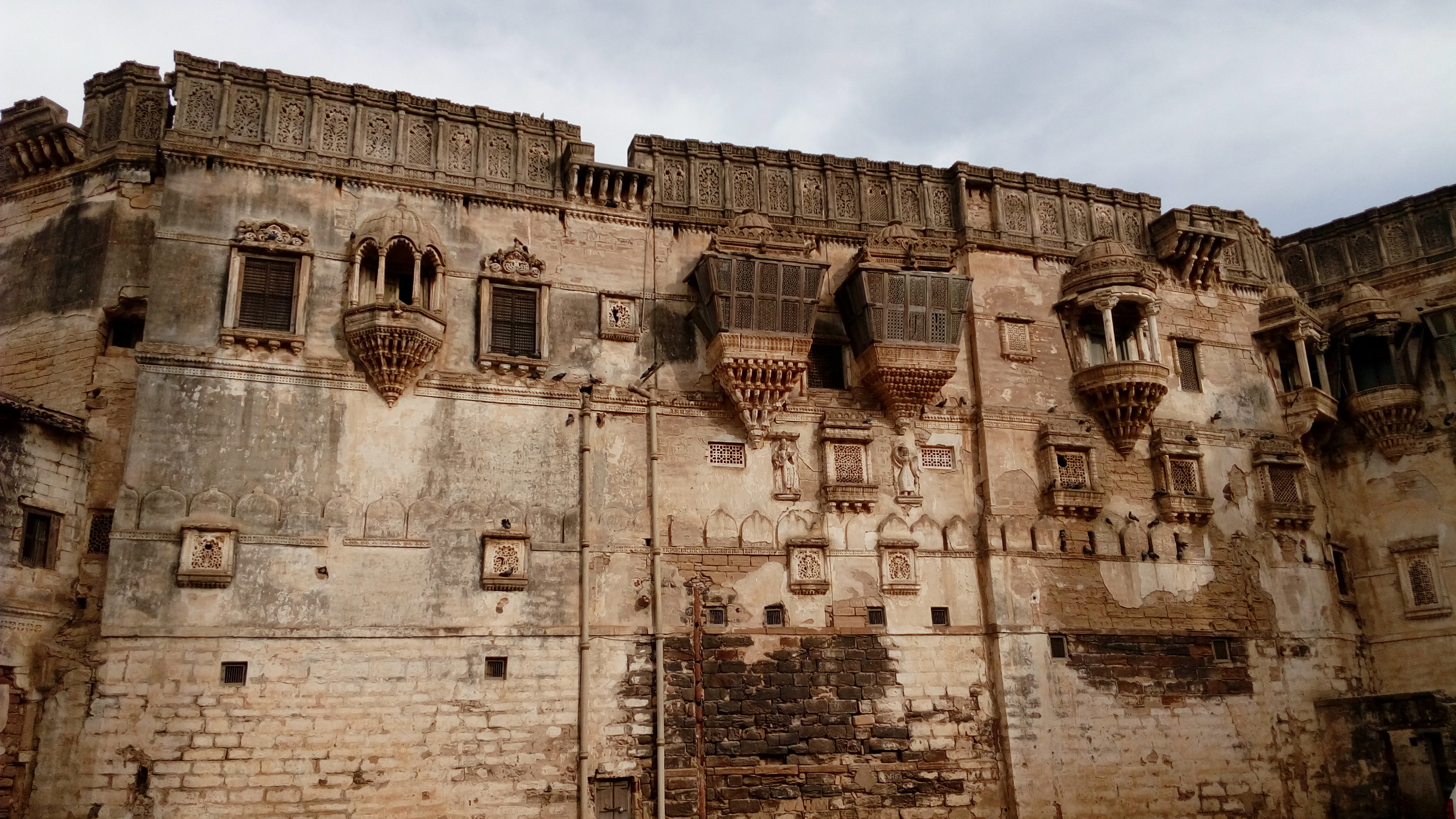 Damaged portion of Ainamahal, a palace in Bhuj, Kutch, Gujarat, India